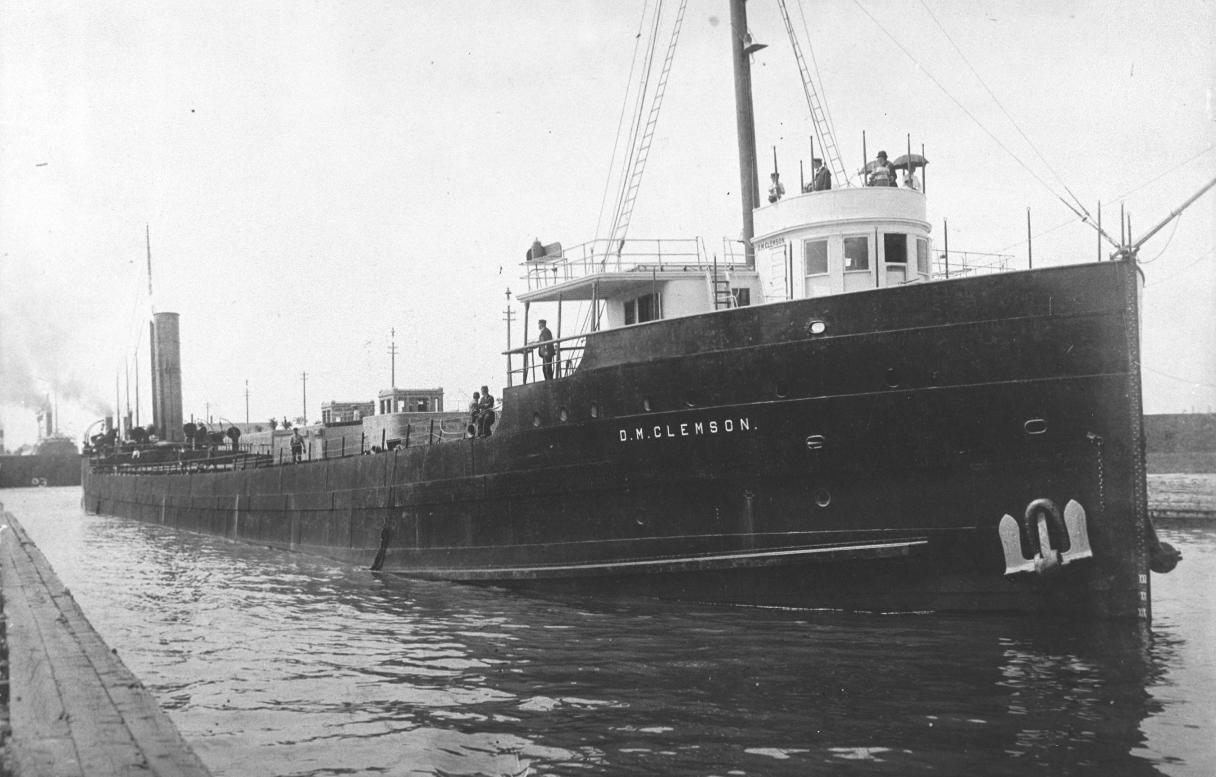 The steamer D.M. Clemson before she disappeared